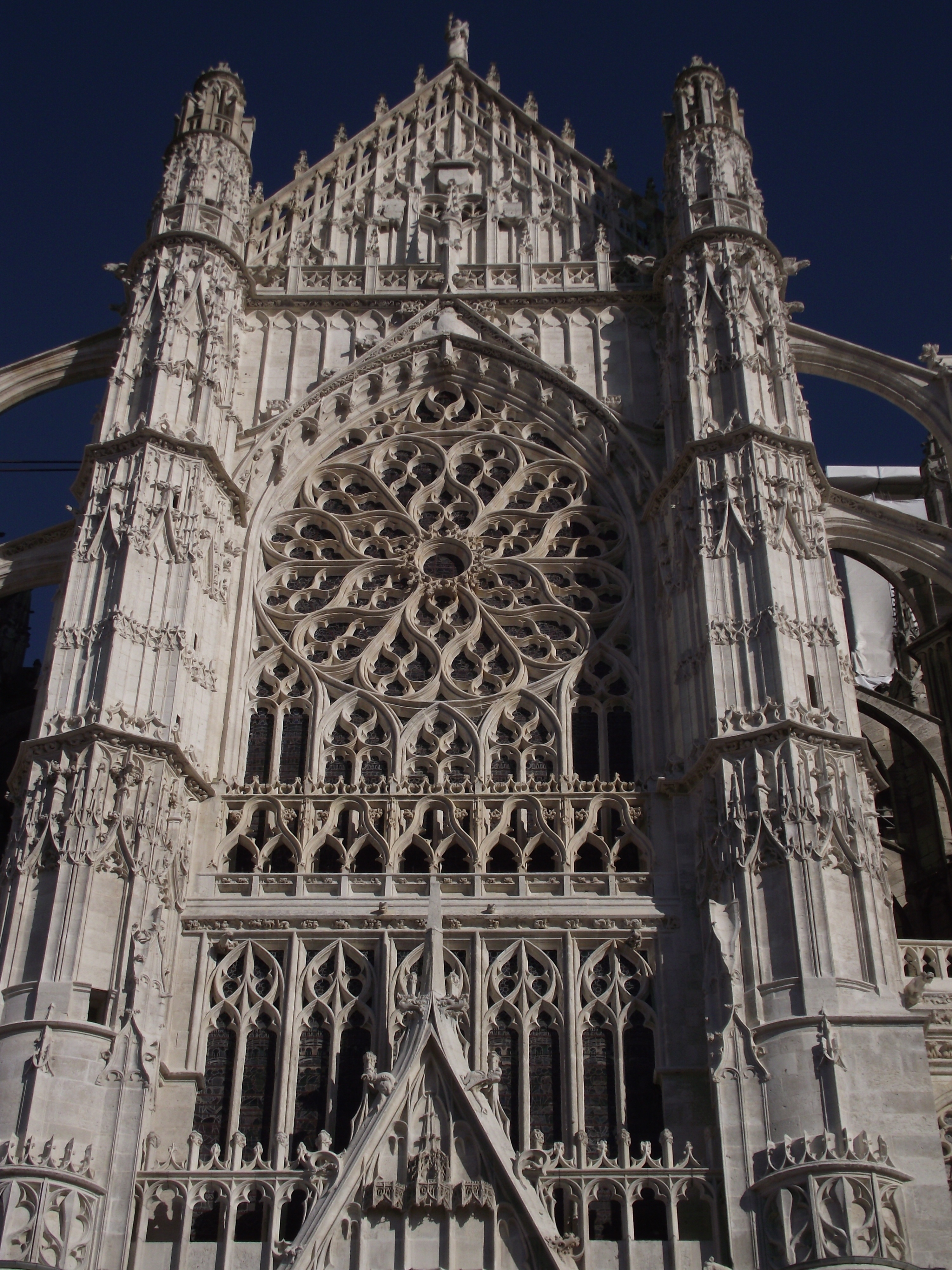 Beauvais, Saint Peter's Cathedral, South Front, XVI Century